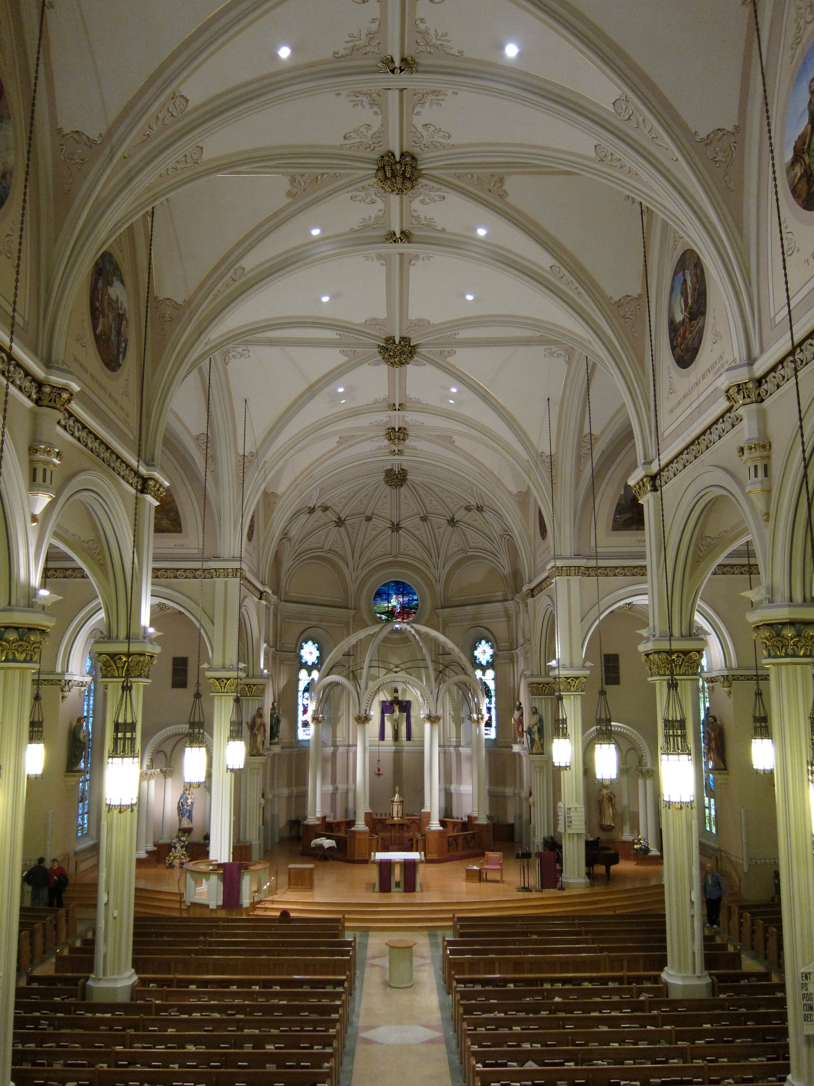 Saint John the Evangelist (Delphos, Ohio), nave, decorated for Lent, view from the organ loft